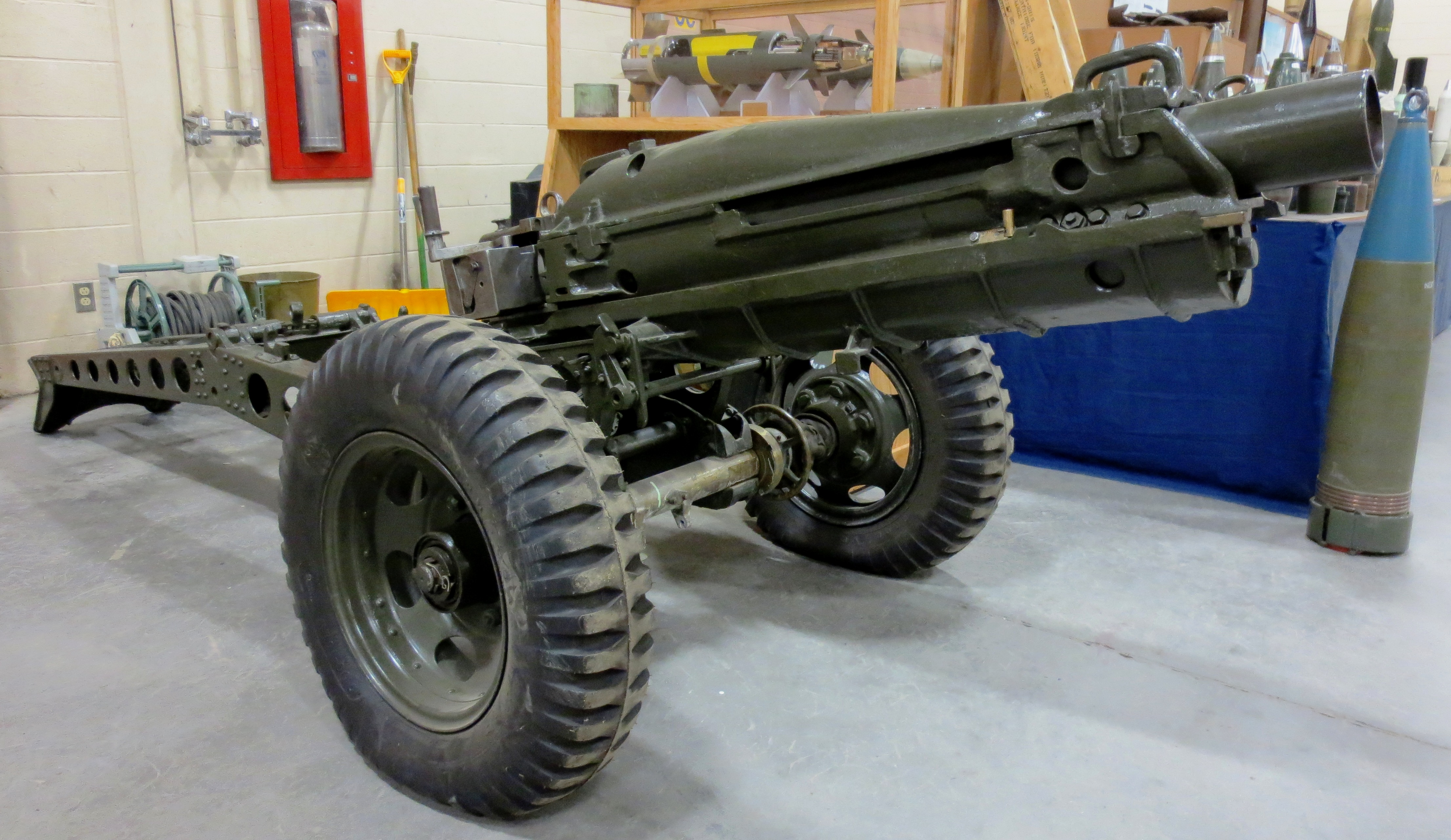 M116 75-mm Pack Howitzer M1, Royal Regiment of Canadian Artillery School, CFB Gagetown, New Brunswick.